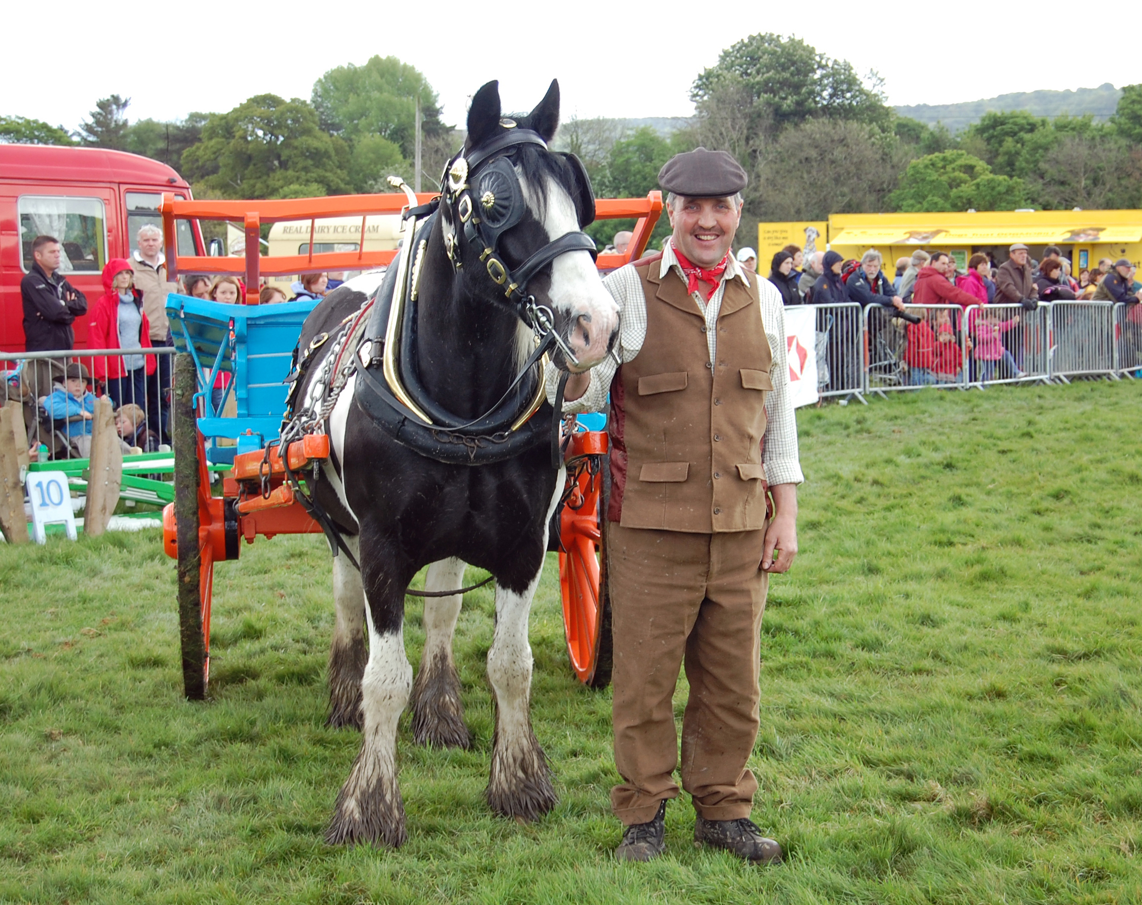 Local resident Kevin Pack, dressed in vintage Yorkshire attire, takes his horse Danny for a turn of the field in front of the crowd at Otley Show.